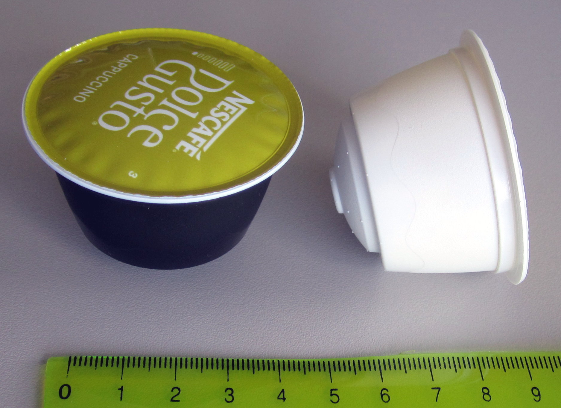 Dolce Gusto coffee capsules with coffe (brown) and milk powder (white), Scale in cm.